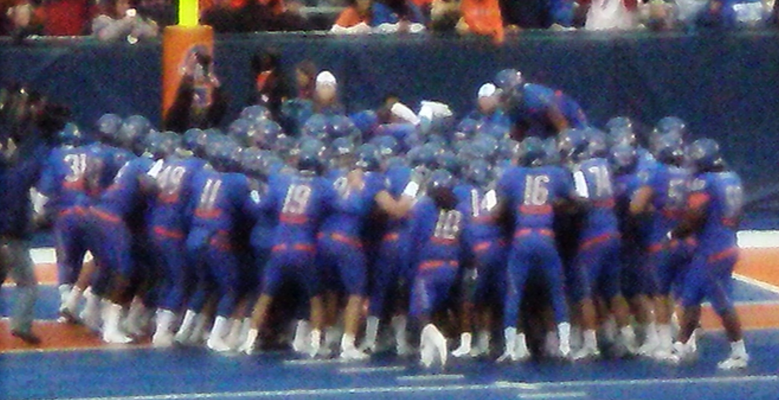 Boise State players coming out to pregame warmups before the Boise State vs UC Davis game at Bronco Stadium in Boise, Idaho on October 3, 2009